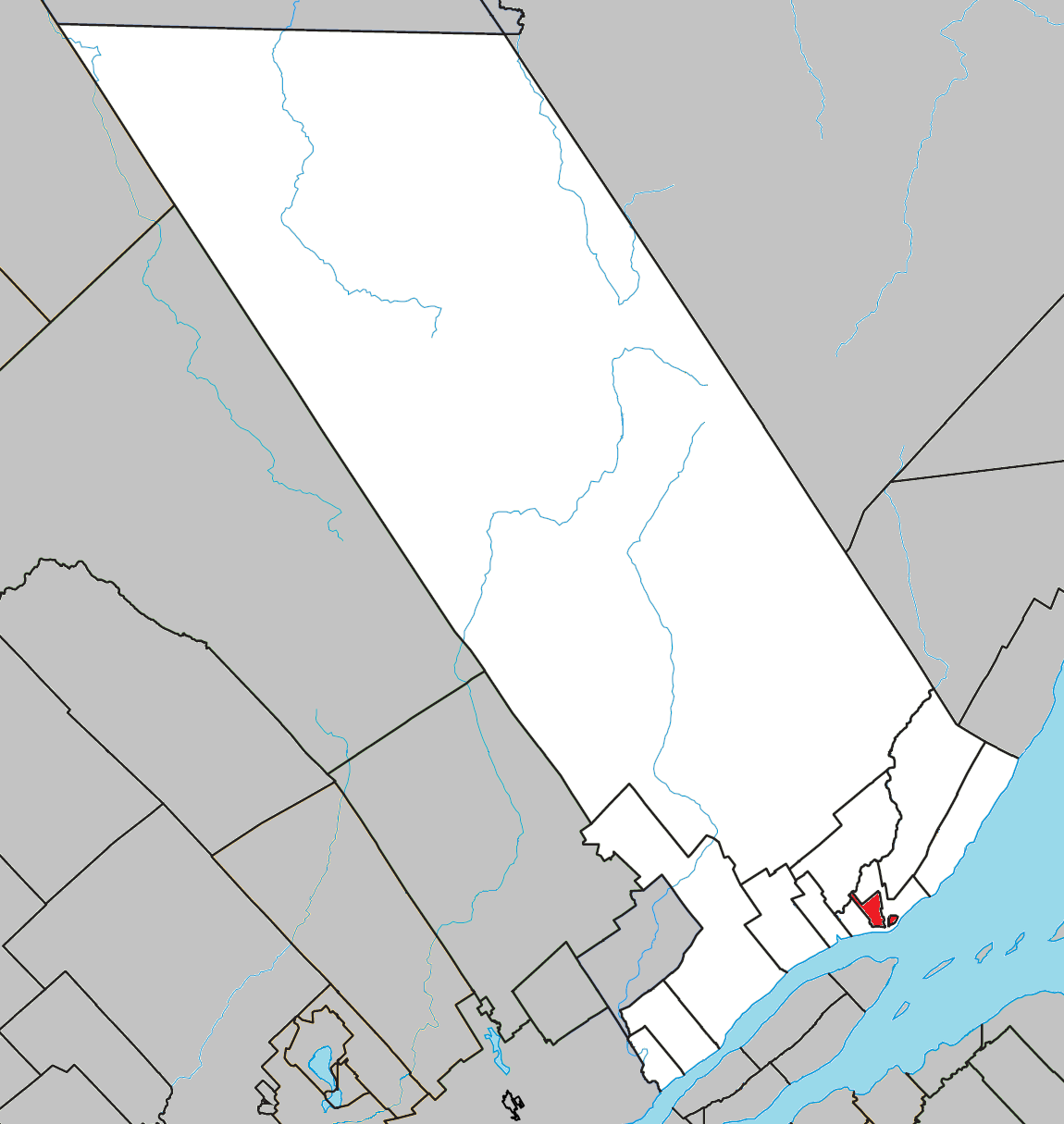 Location of Saint-Louis-de-Gonzague-du-Cap-Tourmente, Quebec within La Côte-de-Beaupré Regional County Municipality.